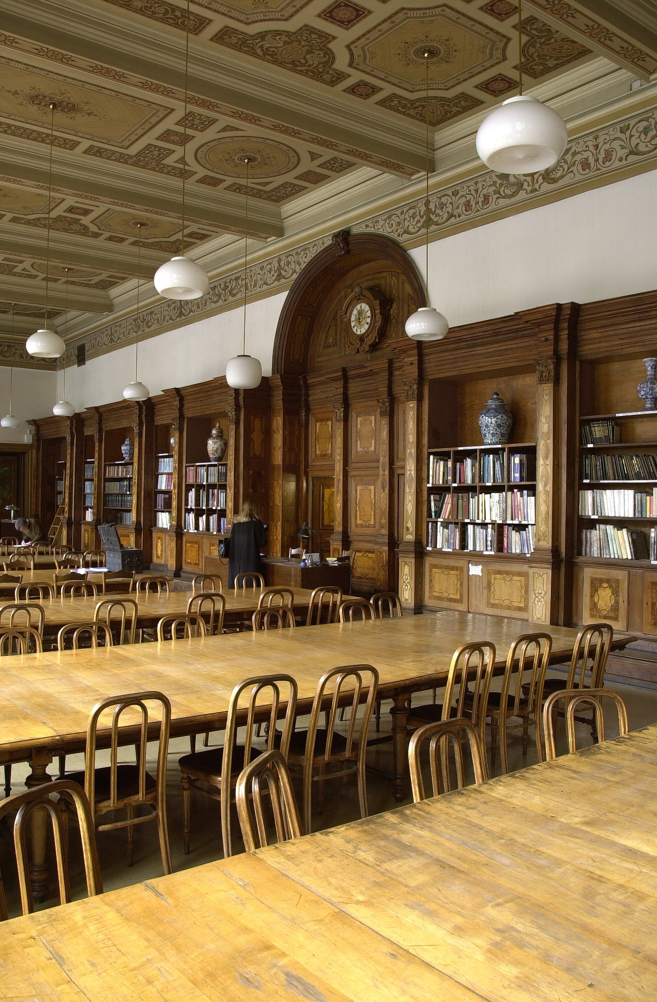 Library in Mseum of Decoartive Arts In Prague